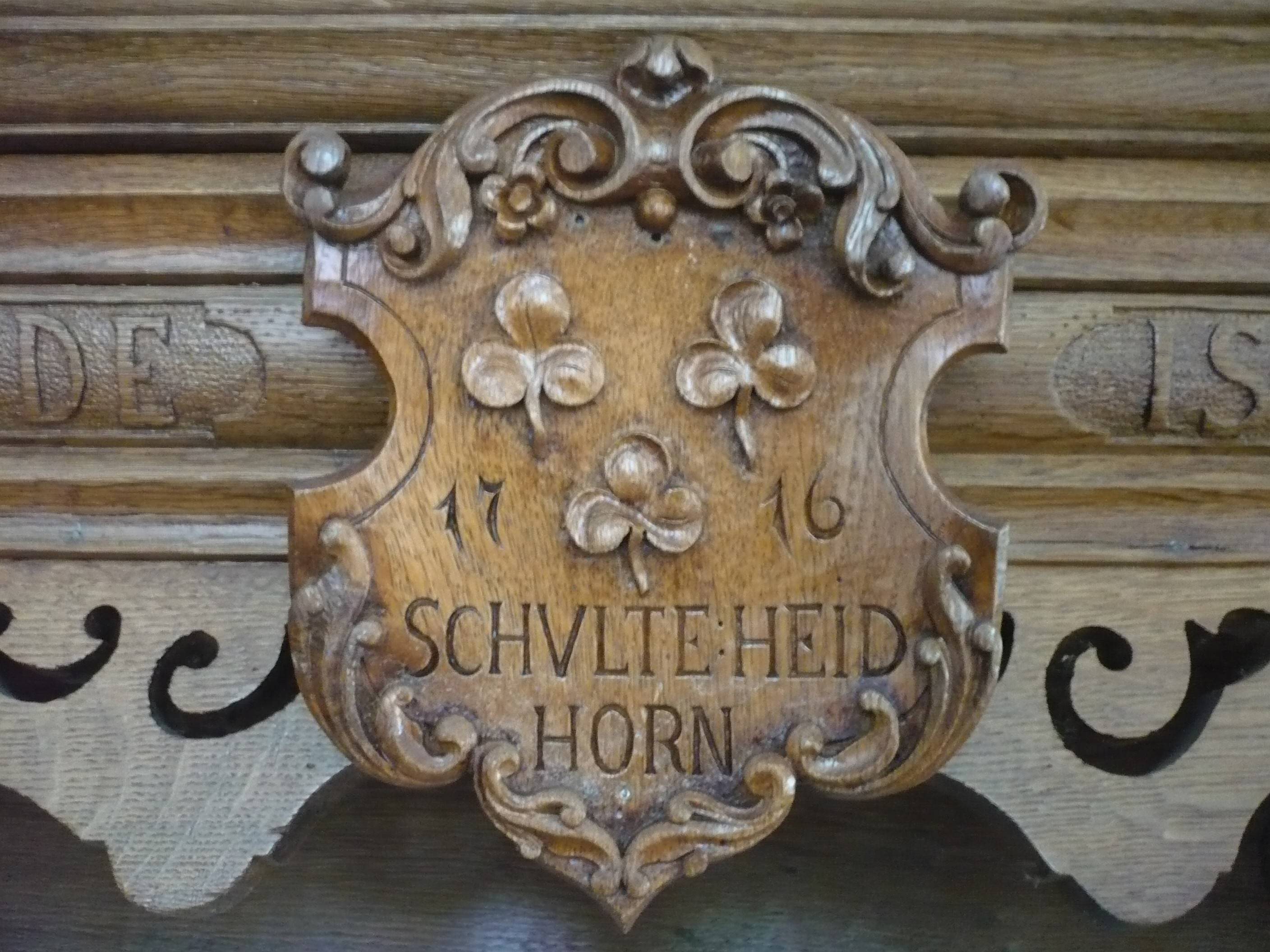 Coat of arms "Schulte Heidhorn", Haus Heidhorn